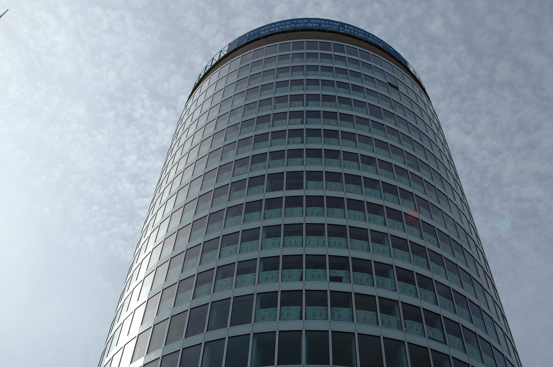 This is the Rotunda in Birmingham during the refurbishment with most of the windows already in place.